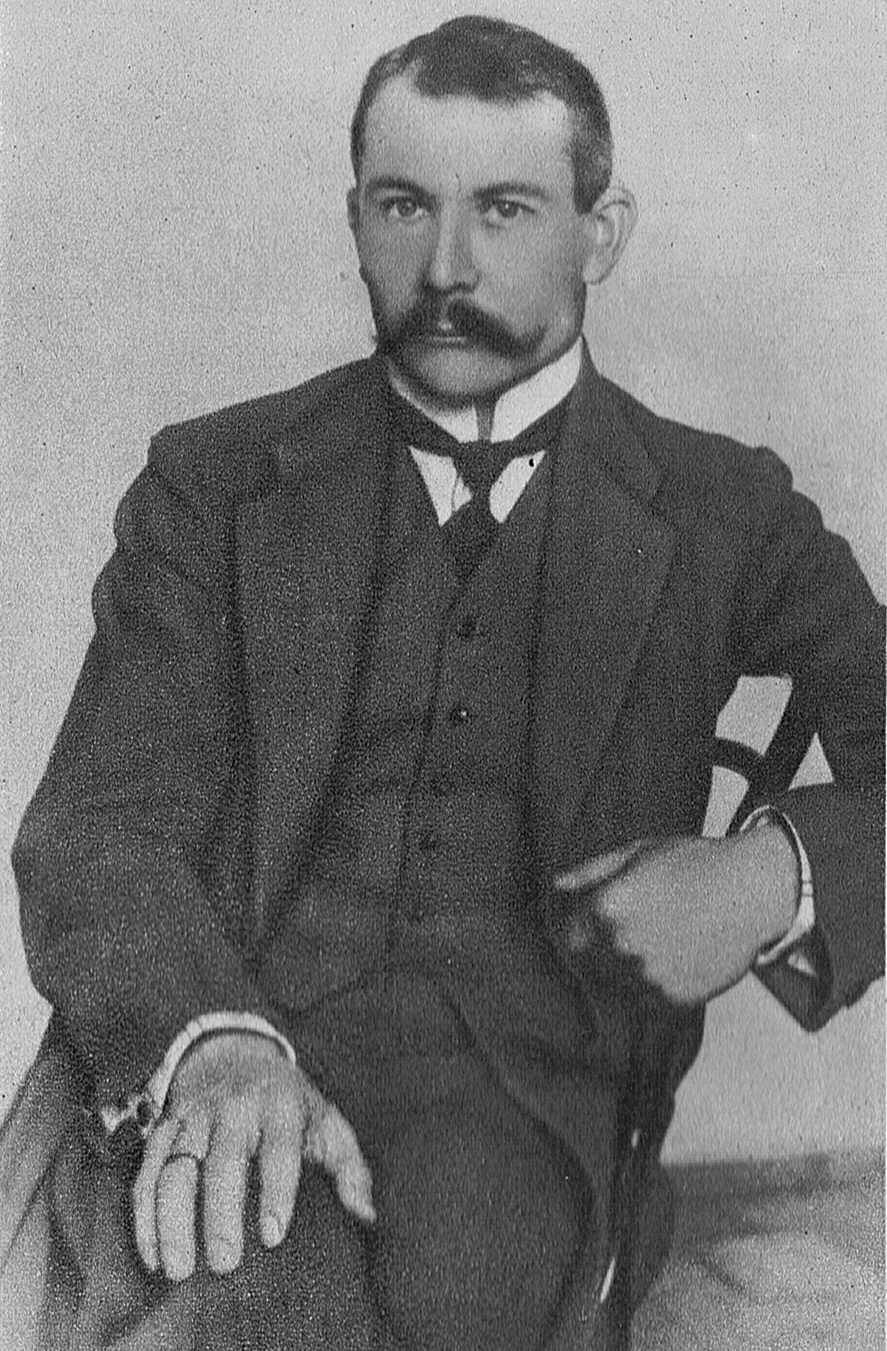 Tomasz Arciszewski (1877-1955)